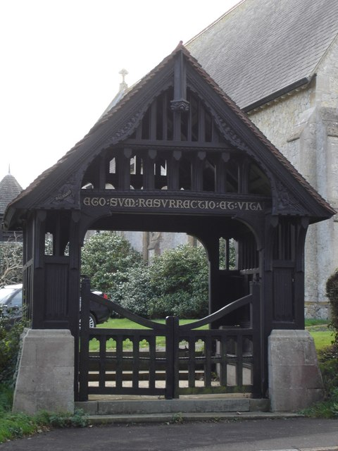 Lychgate of Christ Church, Totland, Isle of Wight. It is inscribed "The wood of this lychgate was taken from the timbers of HMS Thunderer 74 guns which fought on the lee line at Trafalgar".